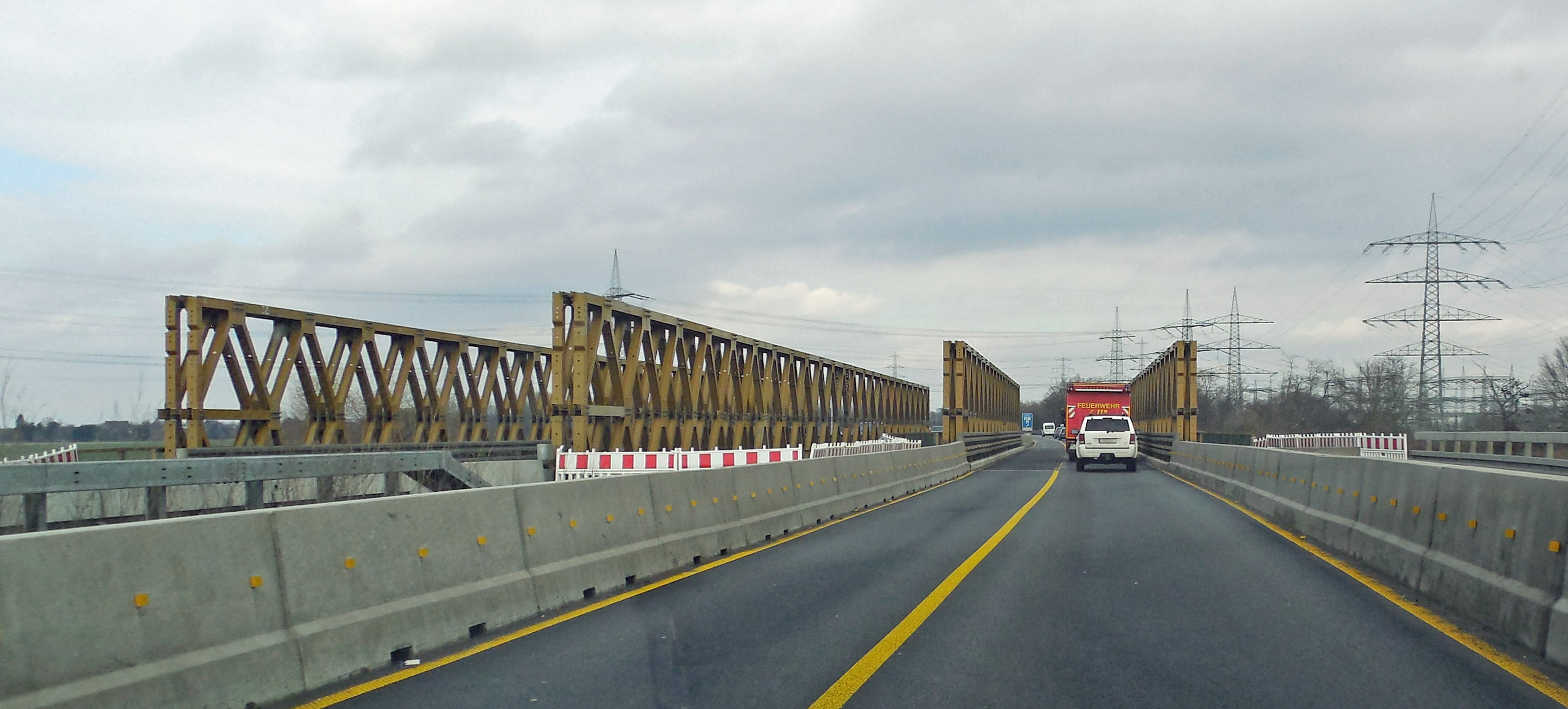 auxilliary bridge Autobahn 57 near Nievenheim, Germany